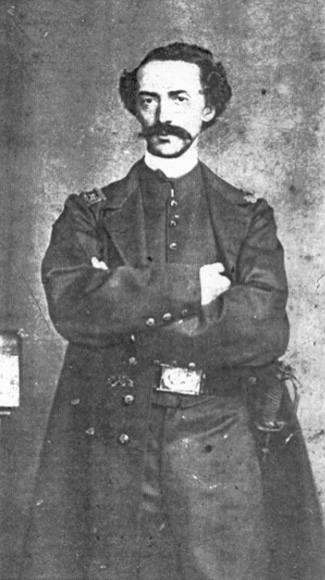 Captain Adolfo Fernandez Cavada in uniform during the American Civil War